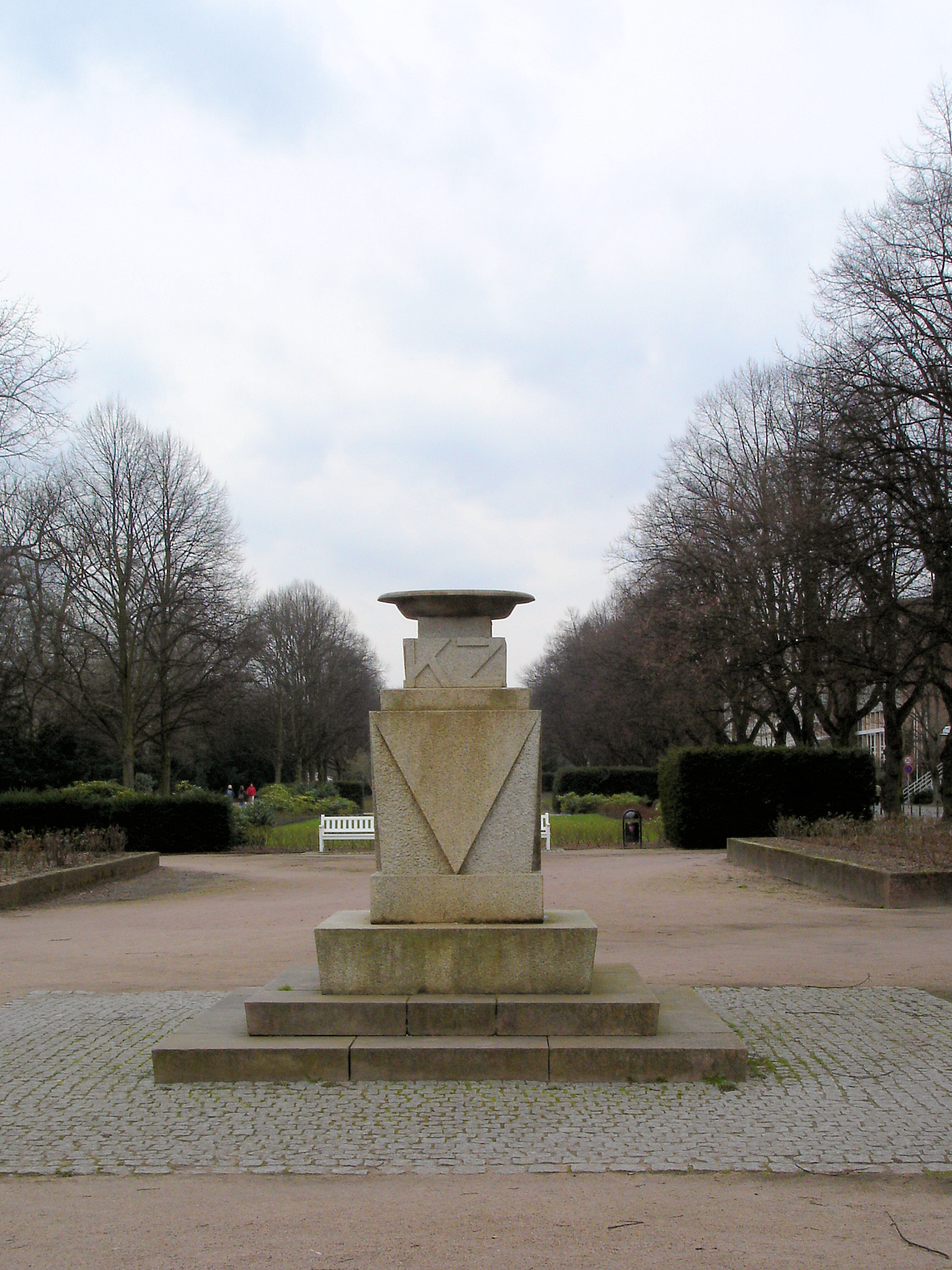 Denkmal für die Opfer des Faschismus in Rostock (Hans Stridde 1946)/ Monument for the victims of fascism in Rostock